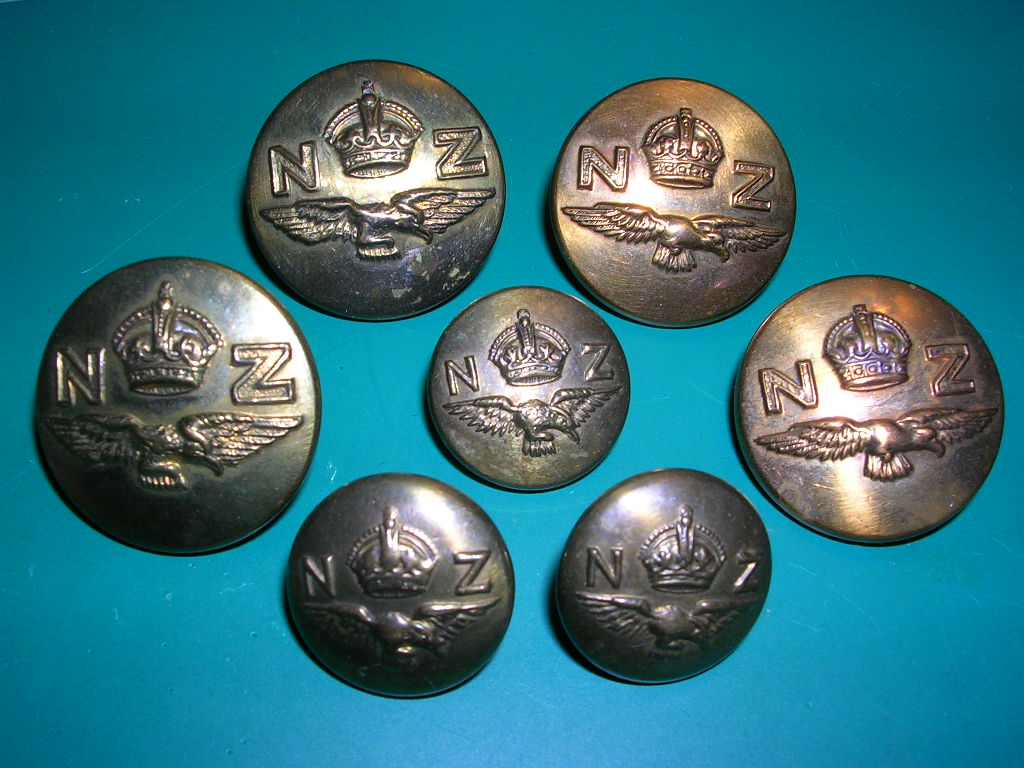 New Zealand Royal Air Force backmarked brass buttons pre-1953